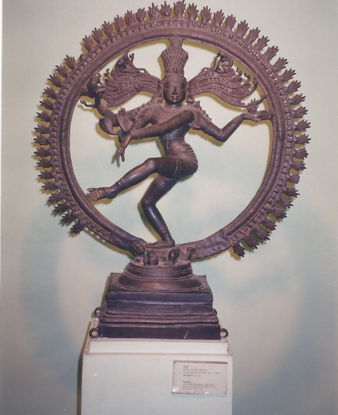 Shiva Nataraja. 12th century, late Chola. Delhi National Museum